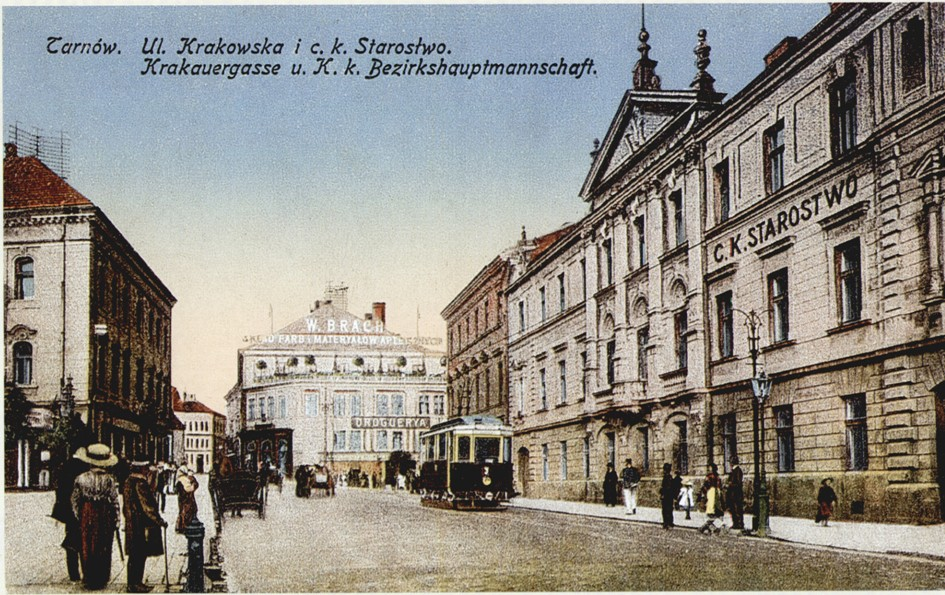 Imperial and Royal Starostwo in Tarnów.